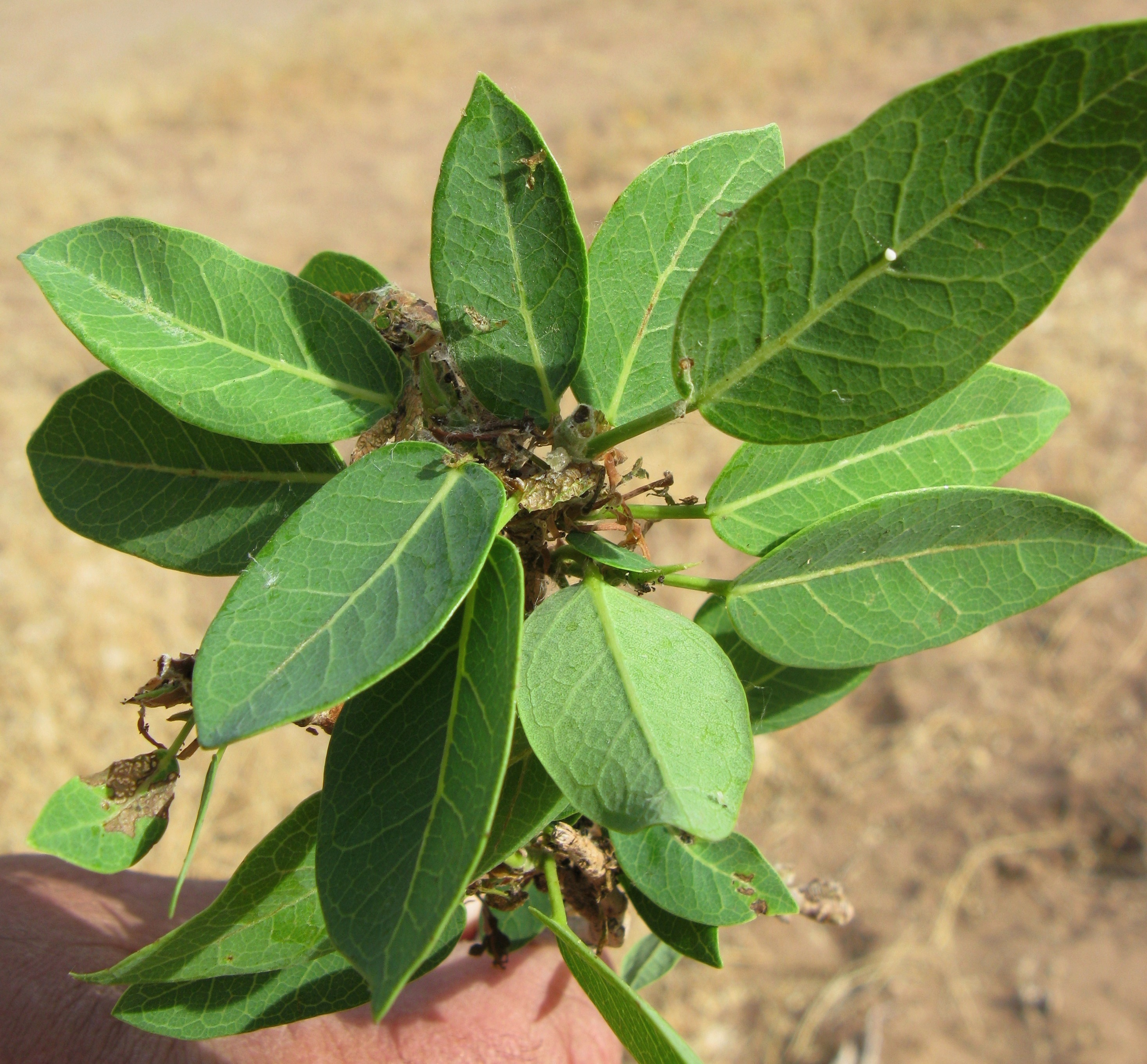 Foliage of a Namaqua fig in the Fish River Canyon, Namibia